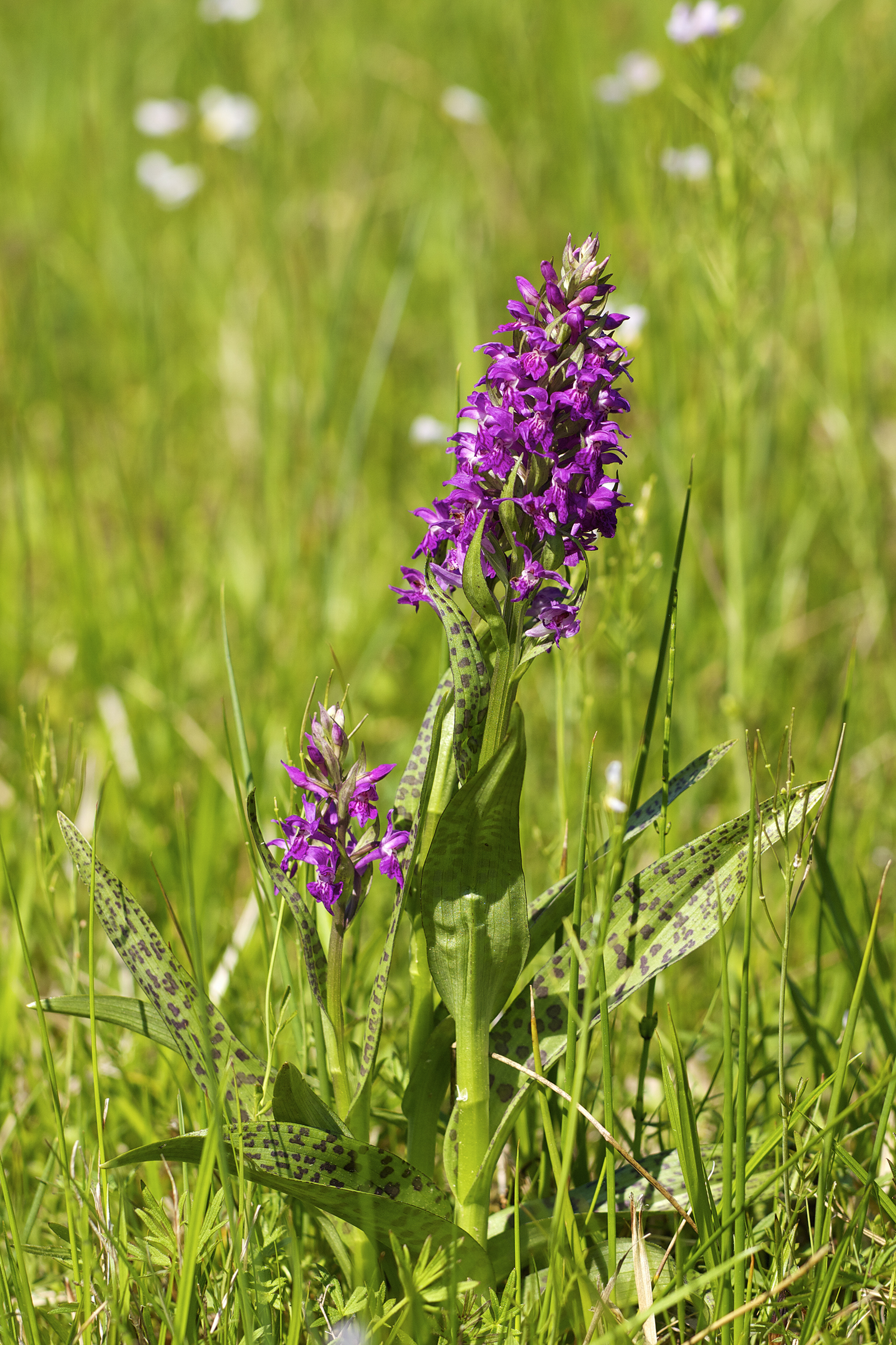 Western marsh orchid (Dactylorhiza majalis), Chemnitz, Germany